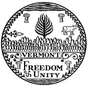 Great seal of Vermont. Although officially adopted in 1937, the seal was created by Ira Allen in 1778 and originally accepted in 1779. The official Vermont state seal was changed in 1821, but reverted back to the original in 1937.